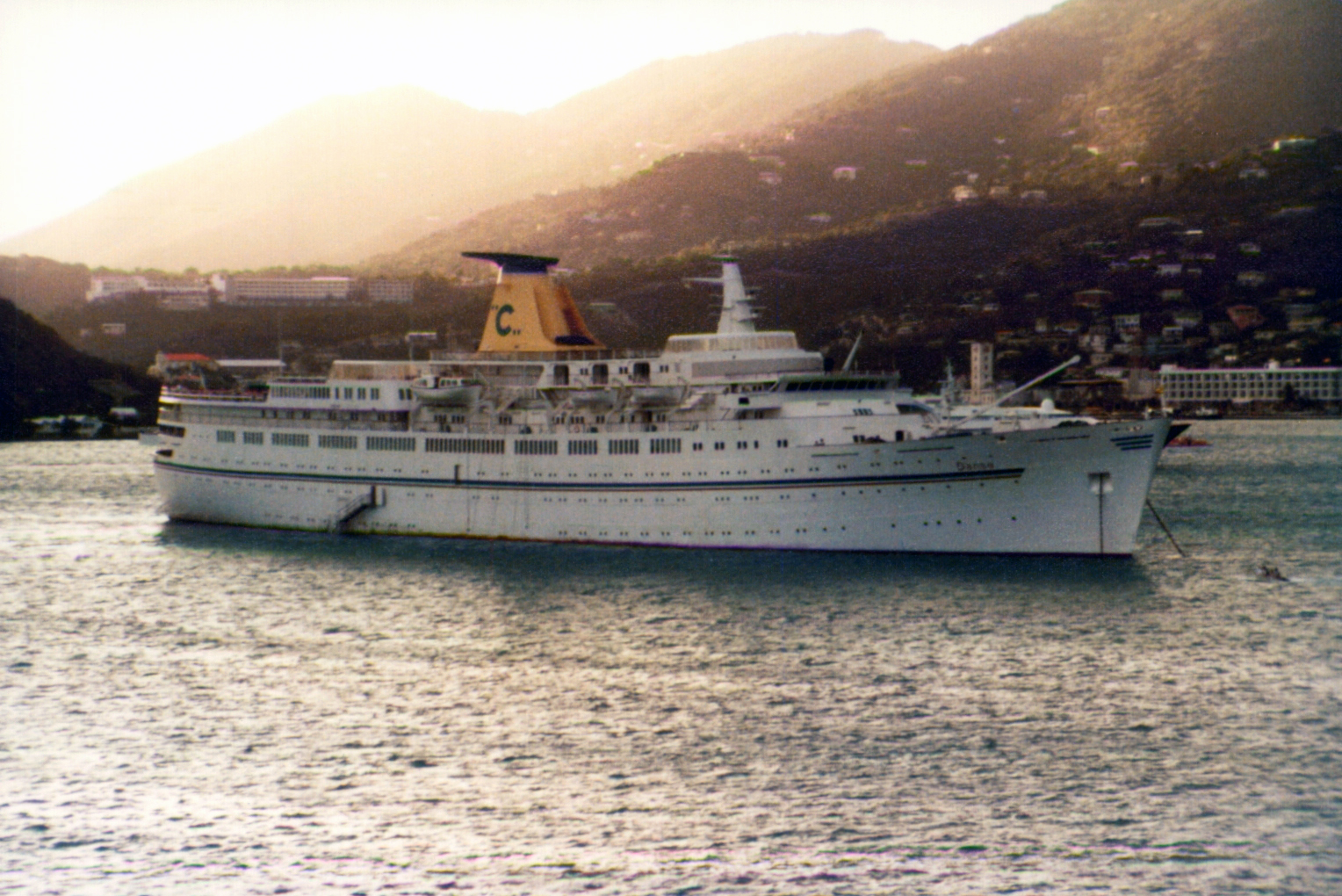 Costa Danae in St. Thomas, 1982